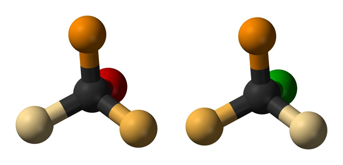 Comparison of the stereochemical configuration of a stereocentre before and after Walden inversion.